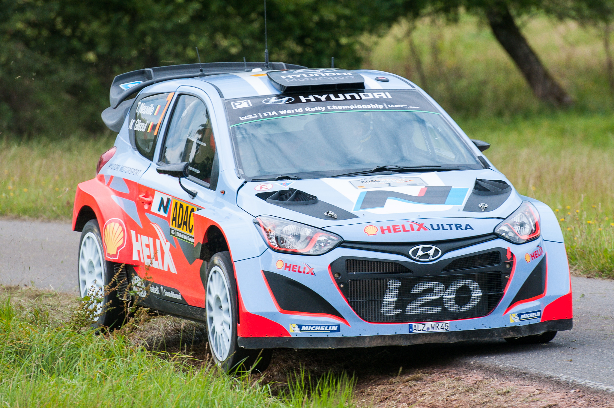 ADAC Rallye Deutschland 2014,FIA,FIA World Rally Championship,Hyundai Motorsport,Hyundai i20 WRC,Motorsport,Nicolas Gilsoul,Rally,Rallye,SS 5,Thierry Neuville,WP 5,WRC,Waxweiler 2